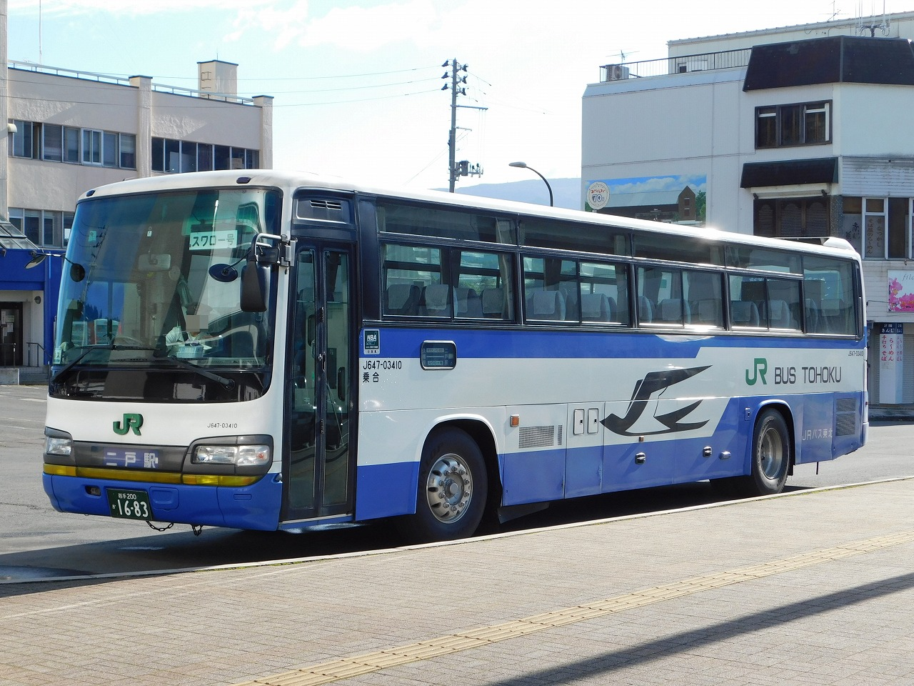 JR bus Tohoku Hino S'elega R FS(KL-RU4FSEA)Ninohe-Kuji "Swallow gou"